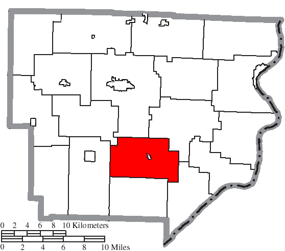 Map of the municipal and township boundaries of Monroe County, Ohio, United States, as of the 2000 census, with the location of Perry Township highlighted. Township borders are shown only in unincorporated areas in order to differentiate incorporated and unincorporated areas more clearly.